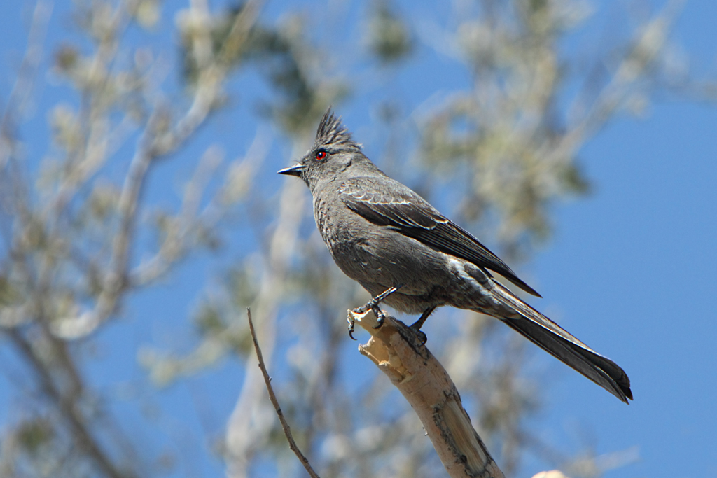 Phainopepla